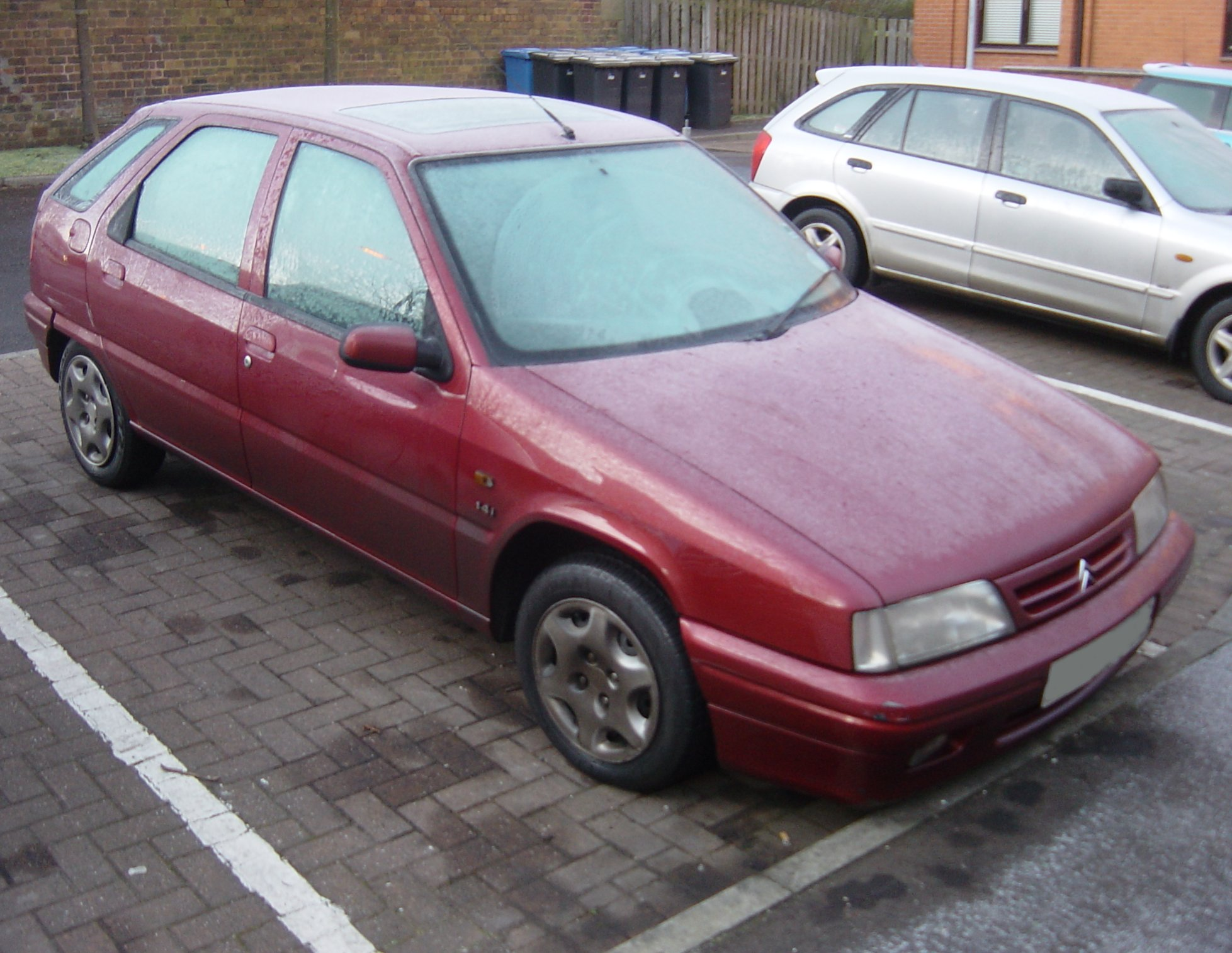 created by Mazurka